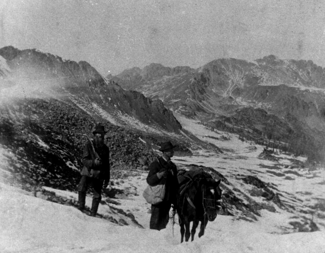 Prospectors in what was then the "Pikes Peak" region of western Kansas Territory (modern Colorado), ca. 1858. Taken From: "Alpenrose Press Web Site"